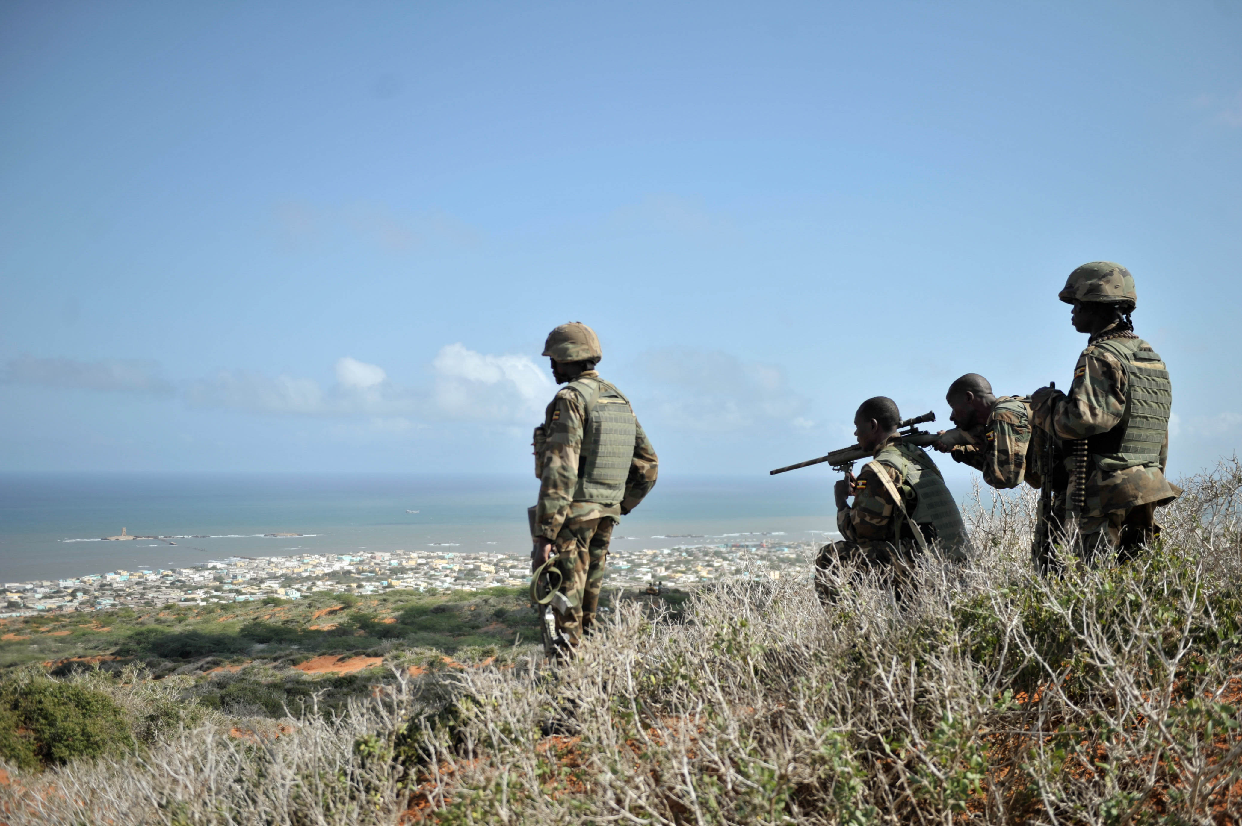 Soldiers belonging to the African Union Mission in Somalia, look through the scope of a sniper for enemy combatants on a hill overlooking the Al Shabab stronghold of Barawe in the Lower Shabelle region of Somalia on October 5. The African Union forces, as well as the Somali National Army, are aiming to liberate the town from the extremist group Al Shabab in an operation named Indian Ocean within the next couple of days. AMISOM Photo / Tobin Jones